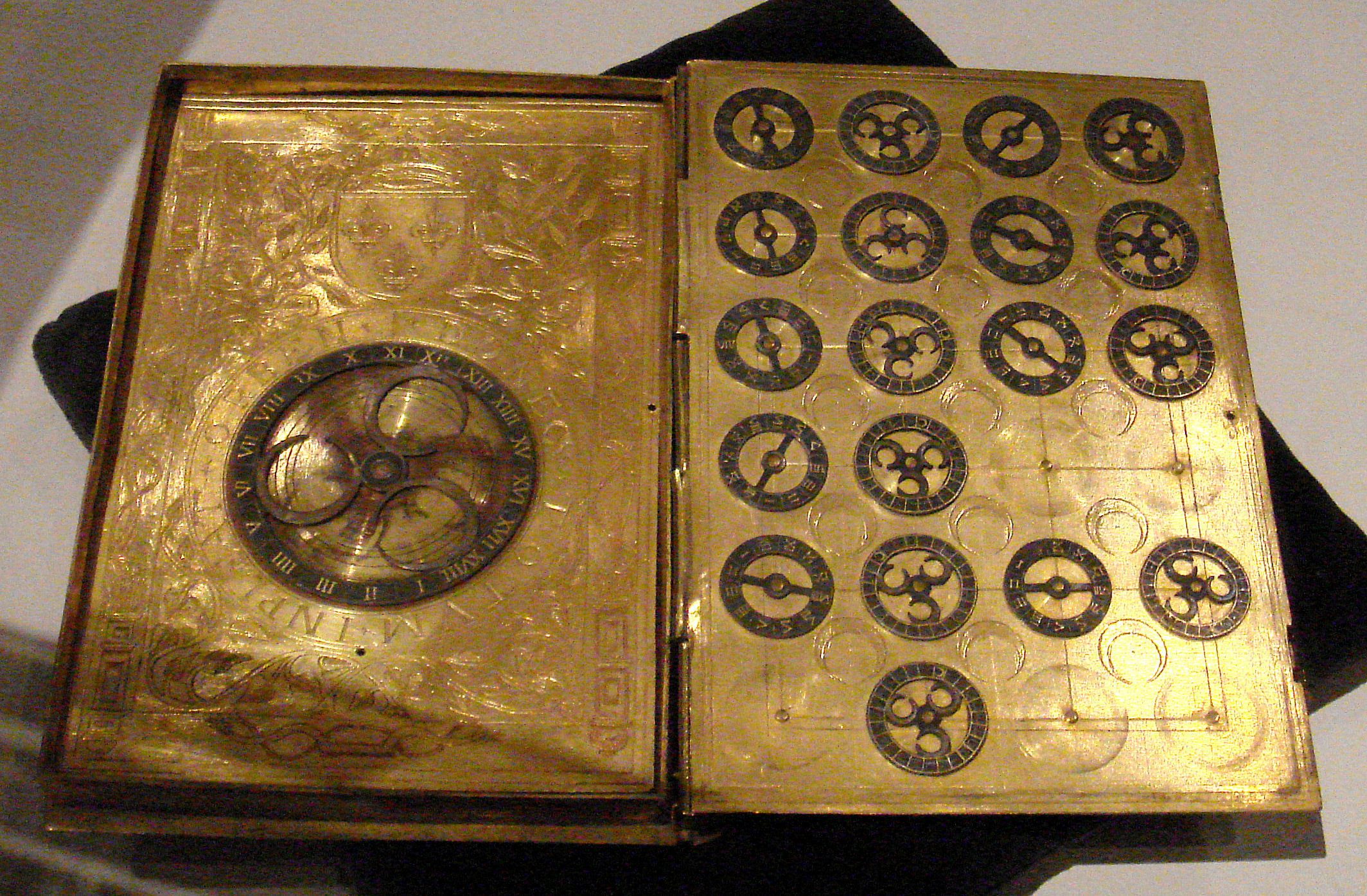 16th century French cypher machine in the shape of a book with arms of Henri II.